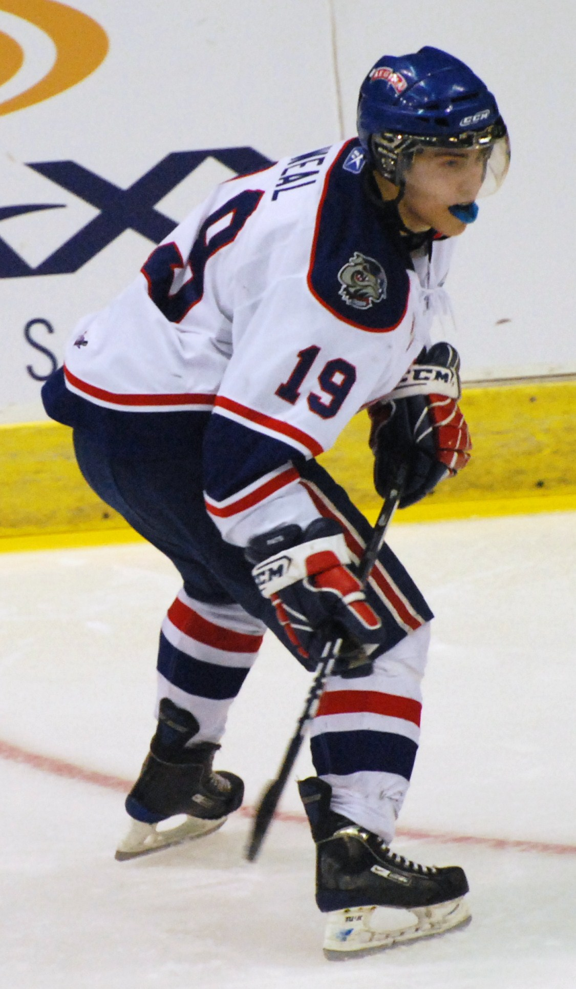 Jordan Weal of the Regina Pats